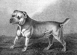 Trusty, the dog of the 2nd Baron of Camelford Title: Trusty: Lord Camelford's Bull and Terrier dog, Circa 1806 Artist: Unknown Source: Collection of User:SirIsaacBrock